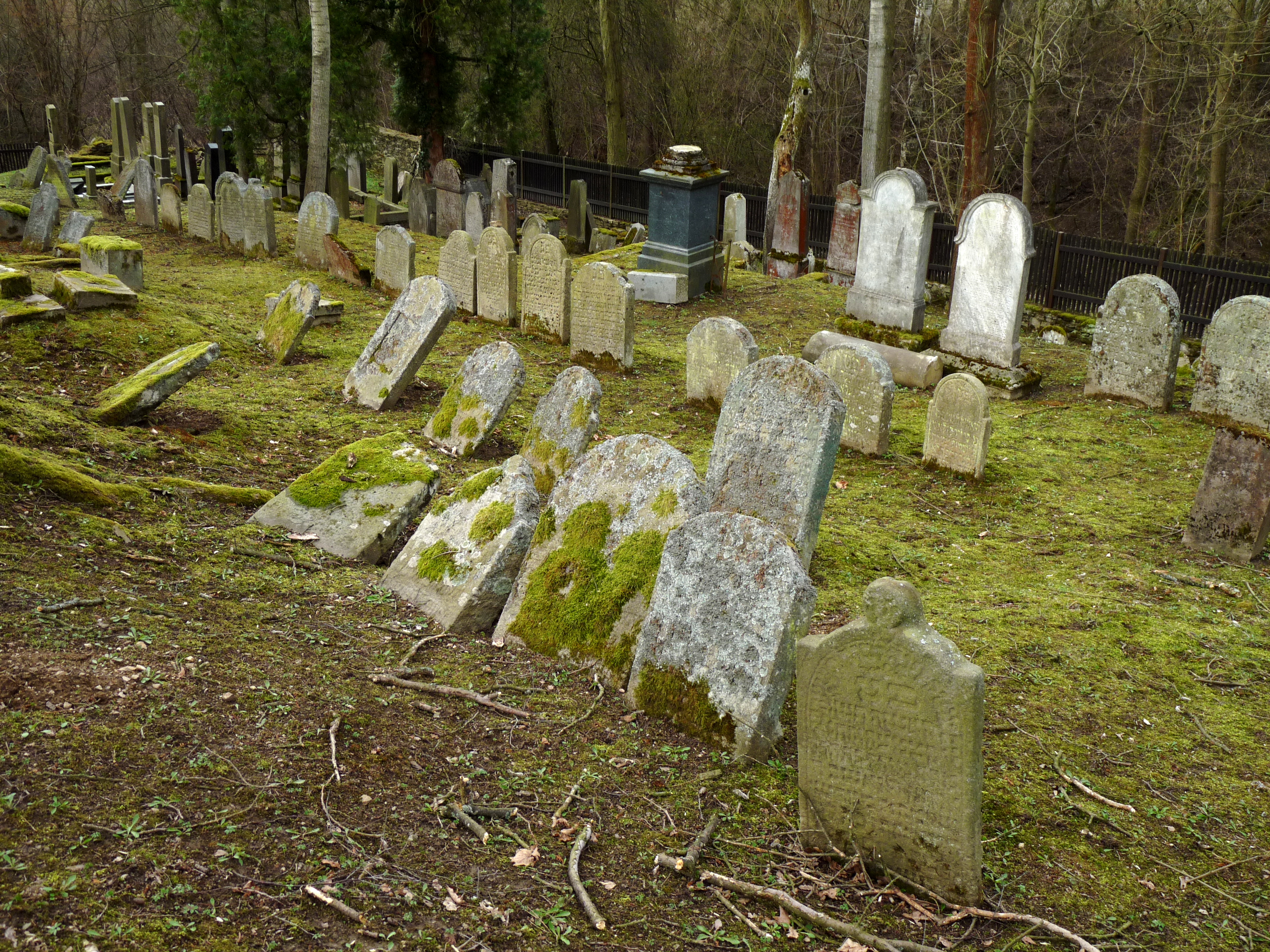 Gravestones in the Jewish cemetery in the town of Ledeč nad Sázavou, Havlíčkův Brod District, Vysočina Region, Czech Republic.